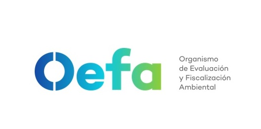 Logo del OEFA